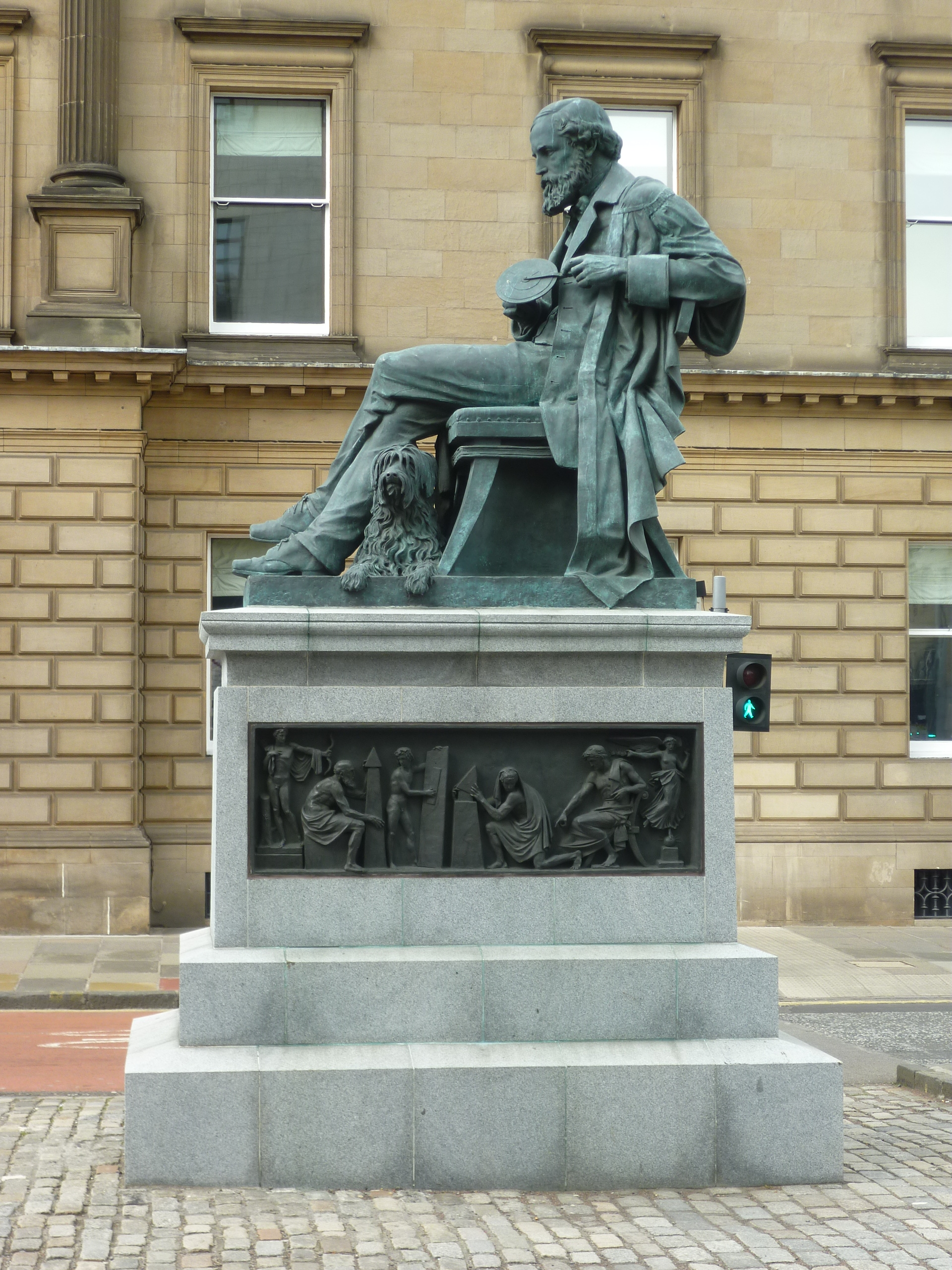 James Clerk Maxwell Monument, George Street, Edinburgh. By Alexander Stoddart. Commissioned by The Royal Society of Edinburgh. Unveiled 25 November 2008.